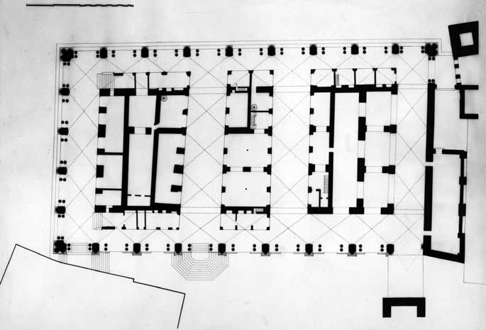 Basilica Palladiana in Vicenza by Andrea Palladio. Relief of lower floor plan by D'Agaro 1968.